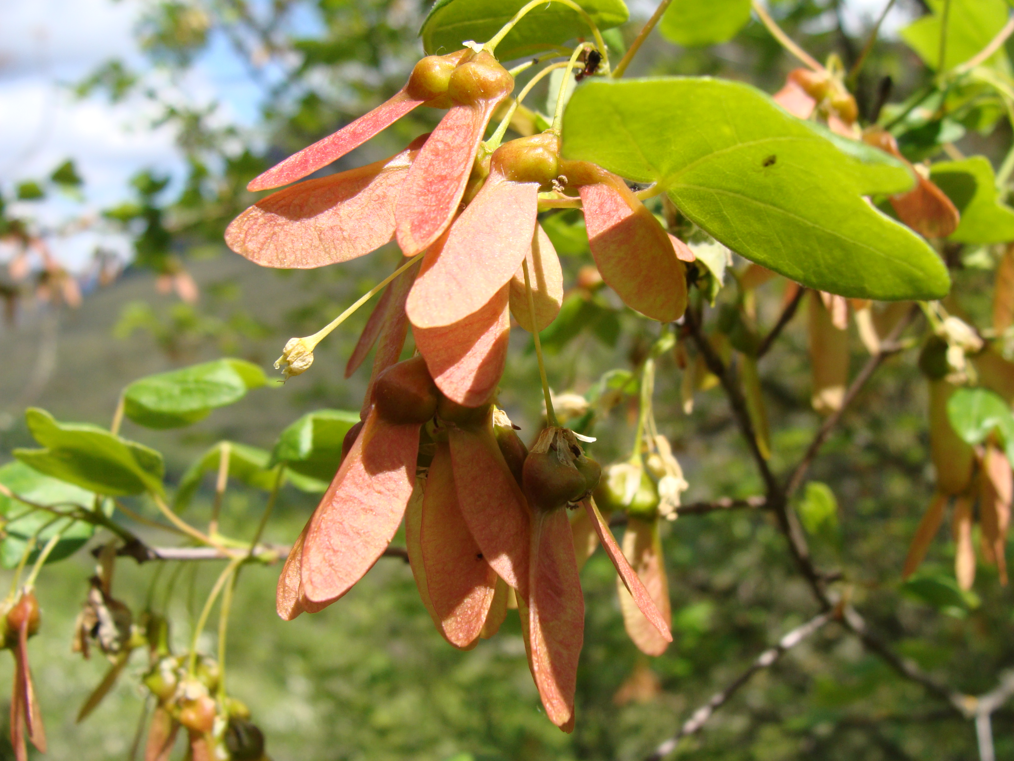 Acer monspessulanum (Montpellier Maple) in the Natural Park of Serra de Enciña de Lastra, Orense, Galicia, Spain.